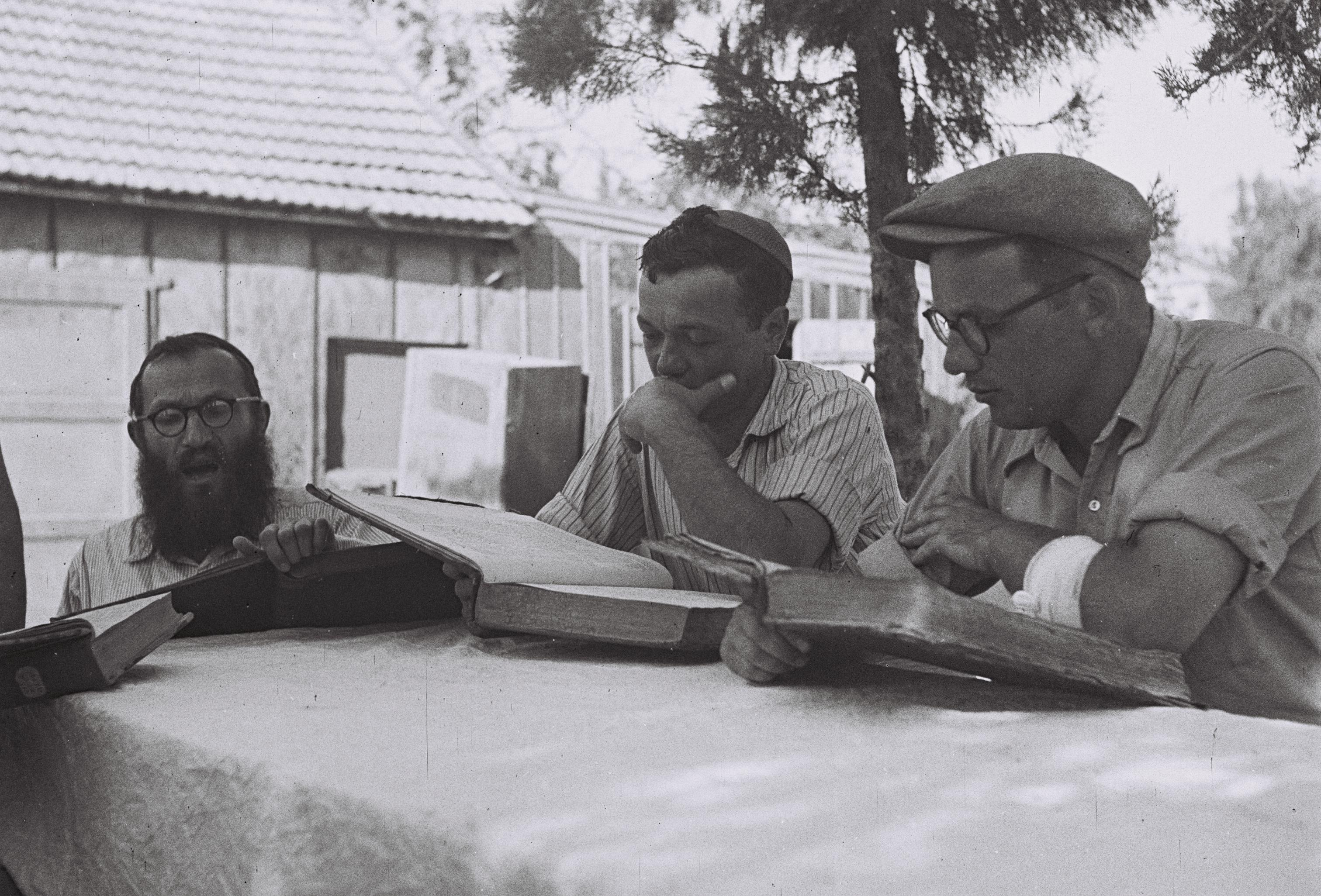 MEMBERS OF KIBBUTZ HAFETZ HAIM STUDYING THE "GEMARA" AFTER WORKING IN THE FIELD. חברי קיבוץ חפץ חיים לומדים גמרא. The person on the left is Kalman Kahana.